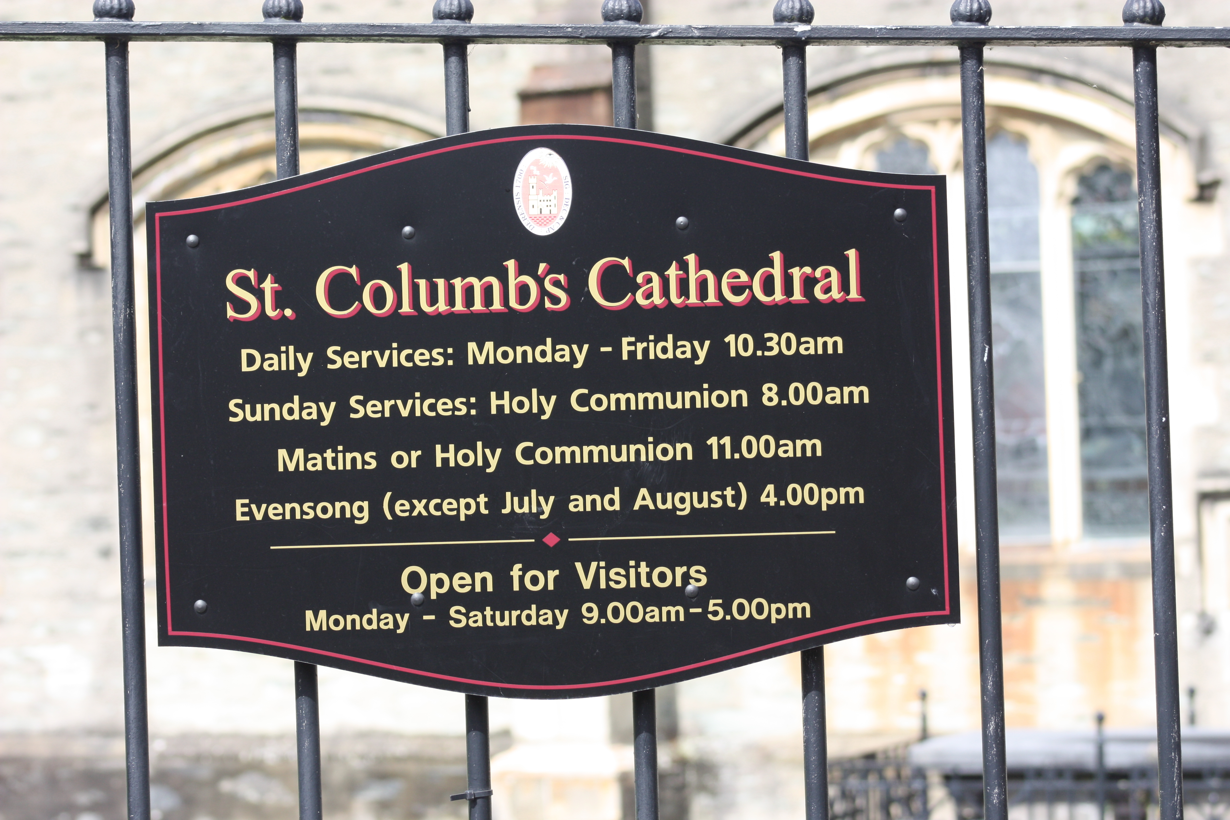 St Columb's Cathedral, London Street, Derry, County Londonderry, Northern Ireland, August 2009